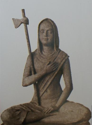 Statue of Shri Gaudapadacharya